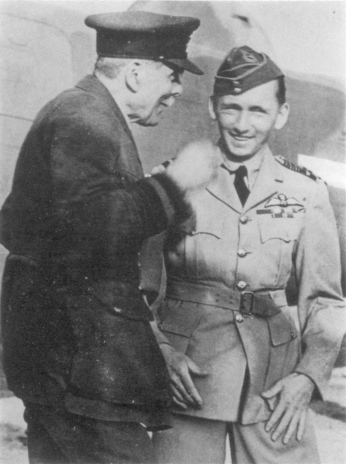 Photograph of the Lord Trenchard and Sir Arthur Tedder during World War II. The photograph was scanned from Probert, H. (1991). High Commanders of the Royal Air Force. HMSO. ISBN 0-11-772635-4.